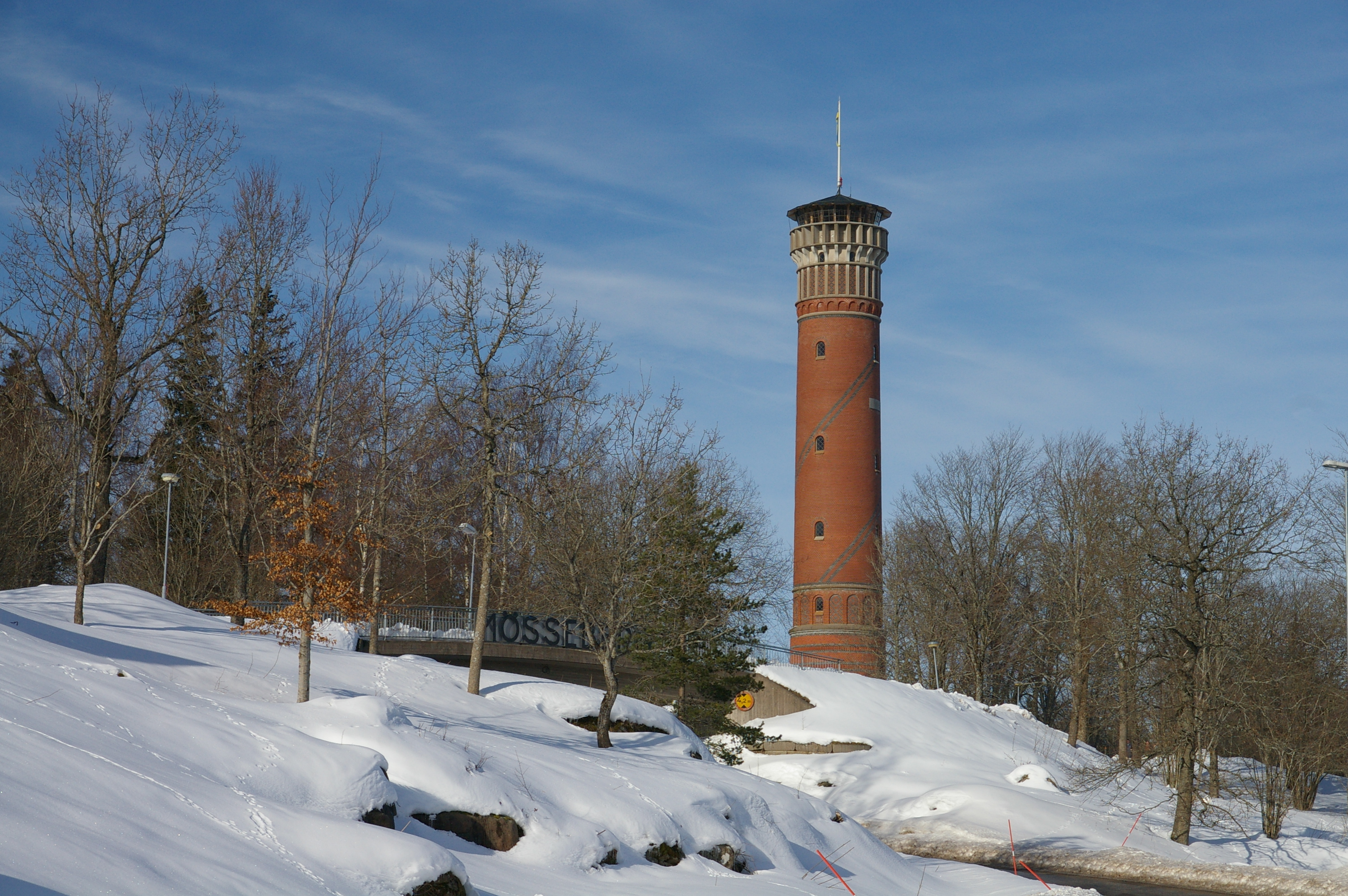 Mösseberg viewing tower, built on top of the hill Mösseberg in Västergötland, Sweden. The 35 m tower was built in 1902, opened on the 28 May 1903 and has a 206-step staircase. The tower was originally built as a part of Mössebergs vattenkuranstalt (Mösseberg spa resort). In 1956 the tower underwent a restoration that bore the tell-tail marks of socialist brutalism. In 1994, the tower once again, underwent restoration. This time it was restored to its original state in a project to battle Sweden's deep economic recession.